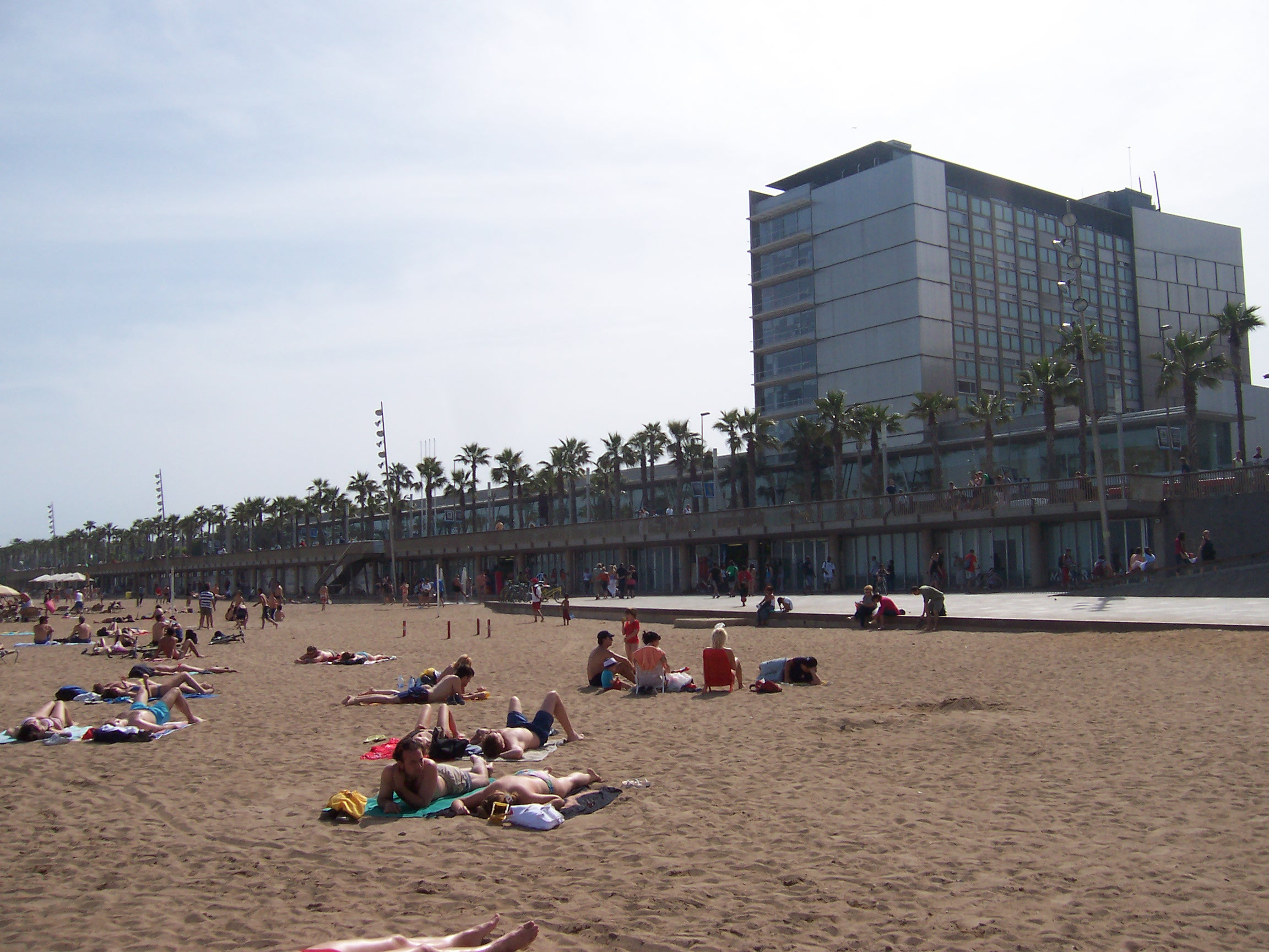 Barceloneta Beach, in Barcelona. Building of Hospital del Mar at the background.